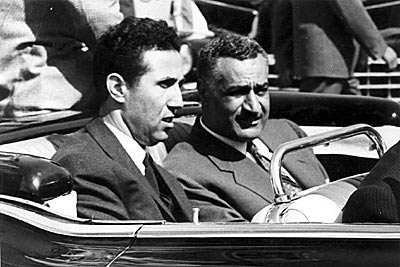 Egyptian President Gamal Abdel Nasser with Algerian President Ahmed Ben Bella touring Algiers in an open-top convertible after Algeria gains independence from France